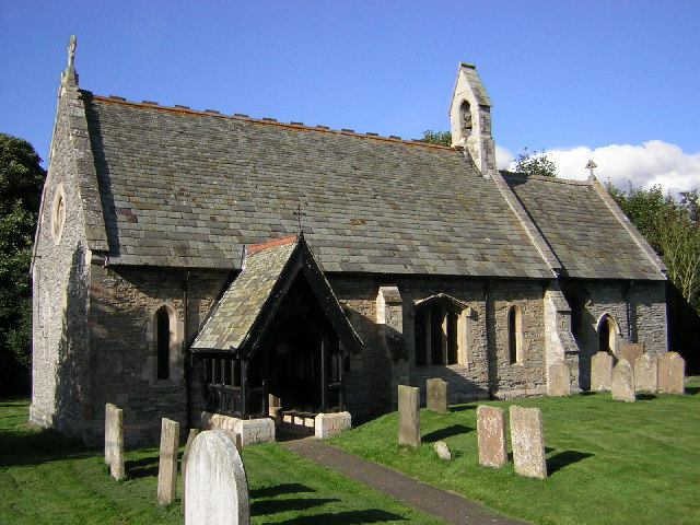 St.Cecilia's church, Girton, Notts. Much restored but some interesting traces of medieval stonework incorporated. Probably the highest spot in Girton, un-touched by water when the Trent floods.